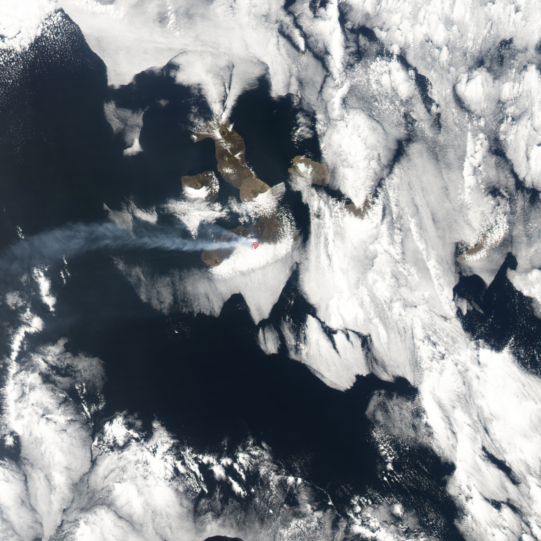 On October 22, 2005, the Sierra Negra Volcano on Isla Isabela in the Galapagos Islands began erupting. The volcano produced an ash cloud several kilometers high and produced a lava flow down its northeast flank. On October 26, the Moderate Resolution Imaging Spectroradiometer (MODIS) flying onboard the Aqua satellite captured this image as the volcano erupted for its fourth straight day. In this image, a plume blows away from the volcano’s summit toward the southwest. A “hotspot,” visible as a red outline, also appears at the volcano’s summit.